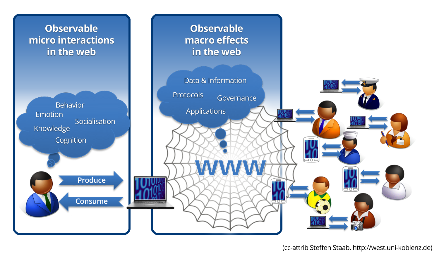 Web Science is about investigating how human behavior co-constitutes the Web. People who impose regulations, engineer the Web, produce content, or even just click on links change the Web how other people will see it. Vice versa, what people see and do on the Web will change their behavior. Web Science is about understanding this cycle.